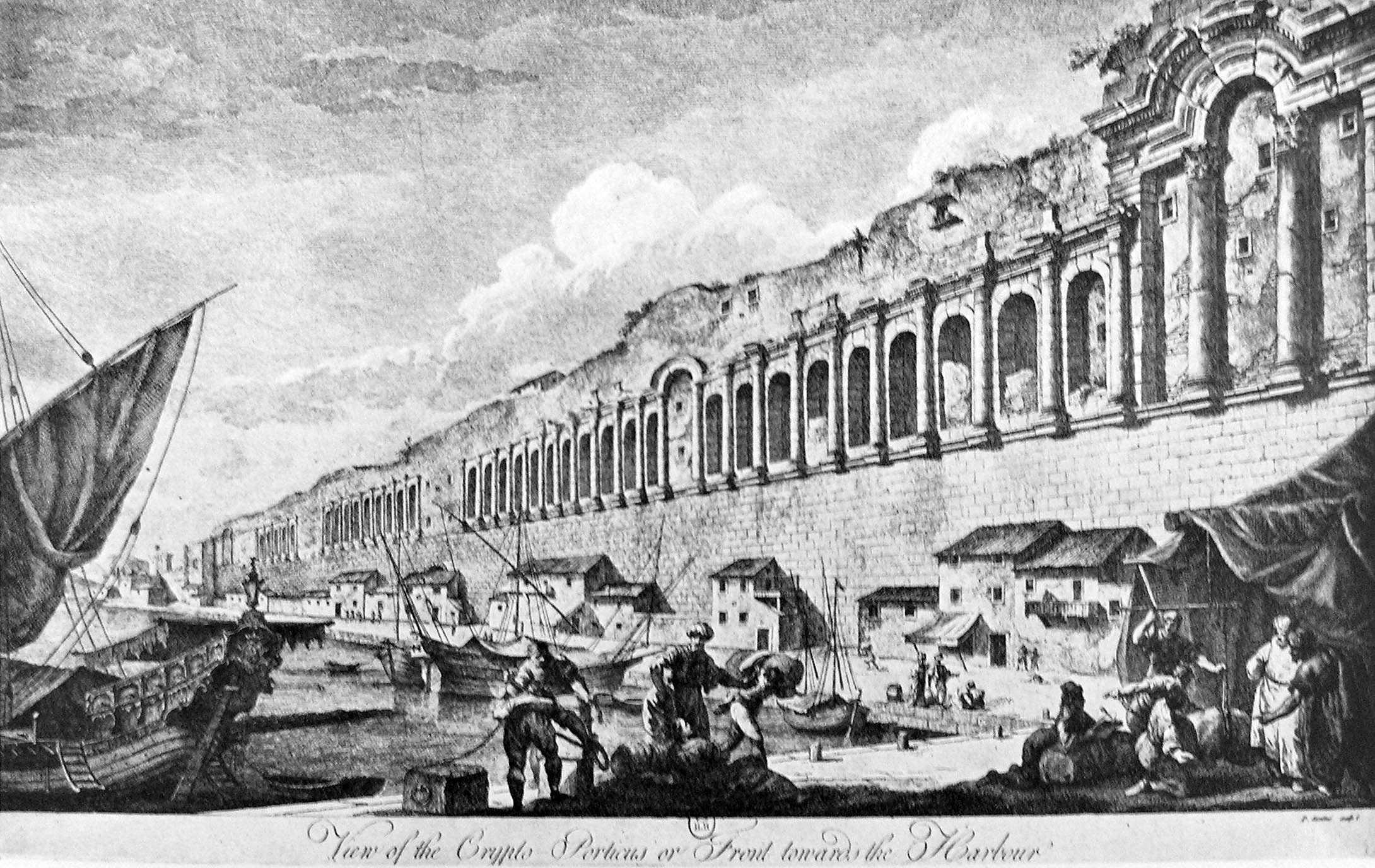 Seaward walls of Diocletian's Palace in 1764, an engraving by Robert Adam.